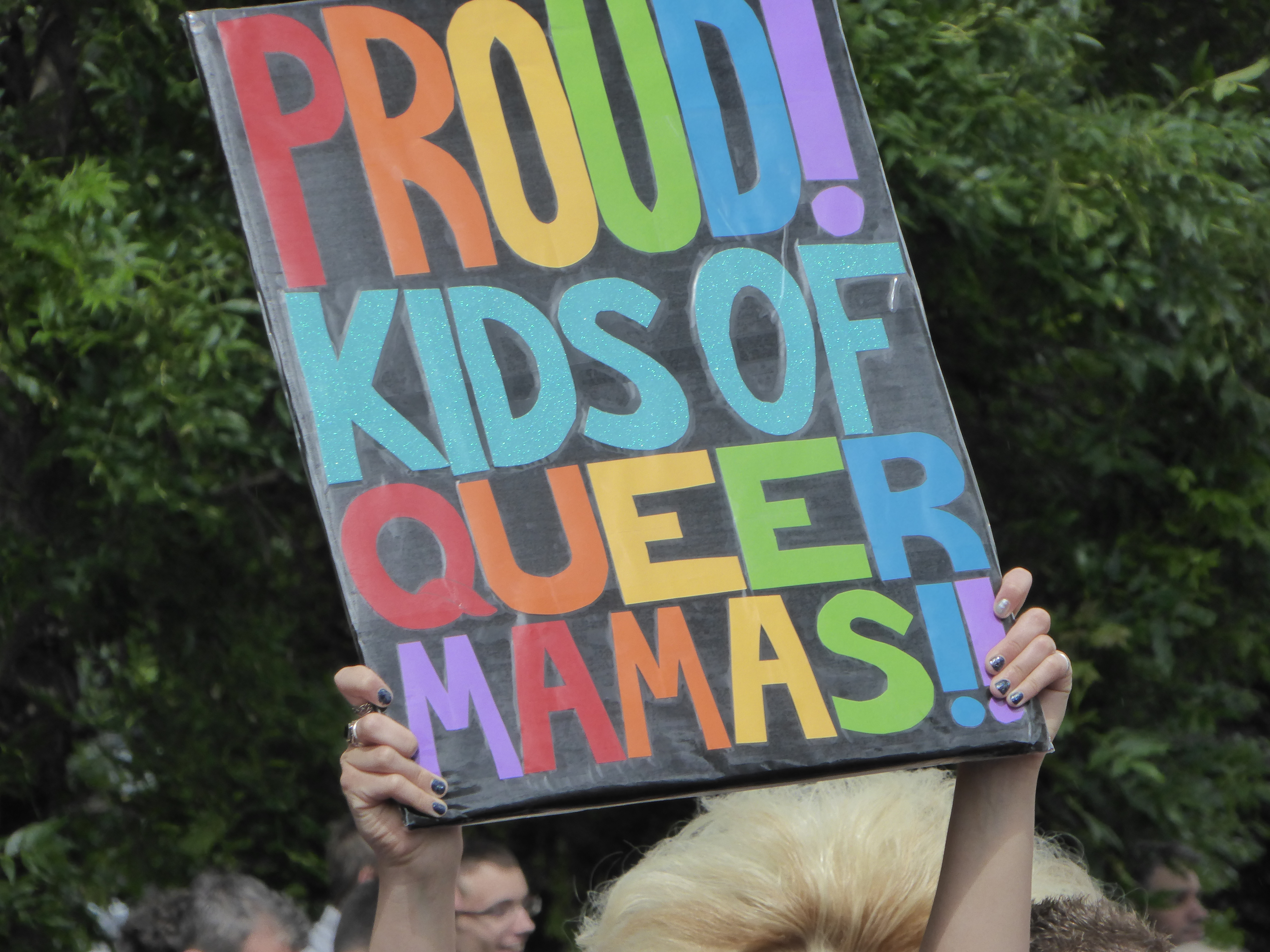 Newcastle Pride 2015, Civic Centre, Newcastle upon Tyne, Tyne and Wear, England, July 2015